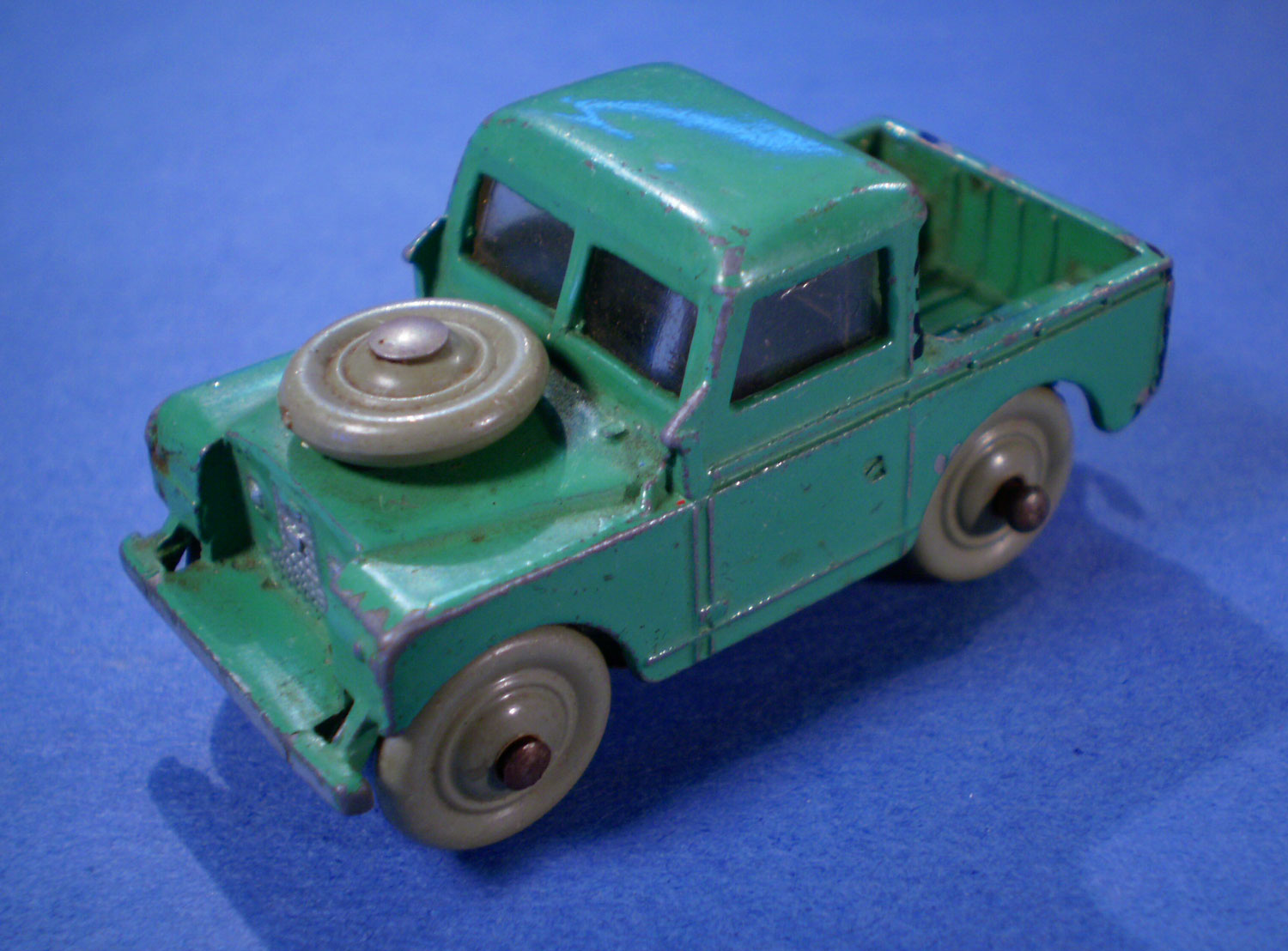 Photo of diecast miniature vehicle.